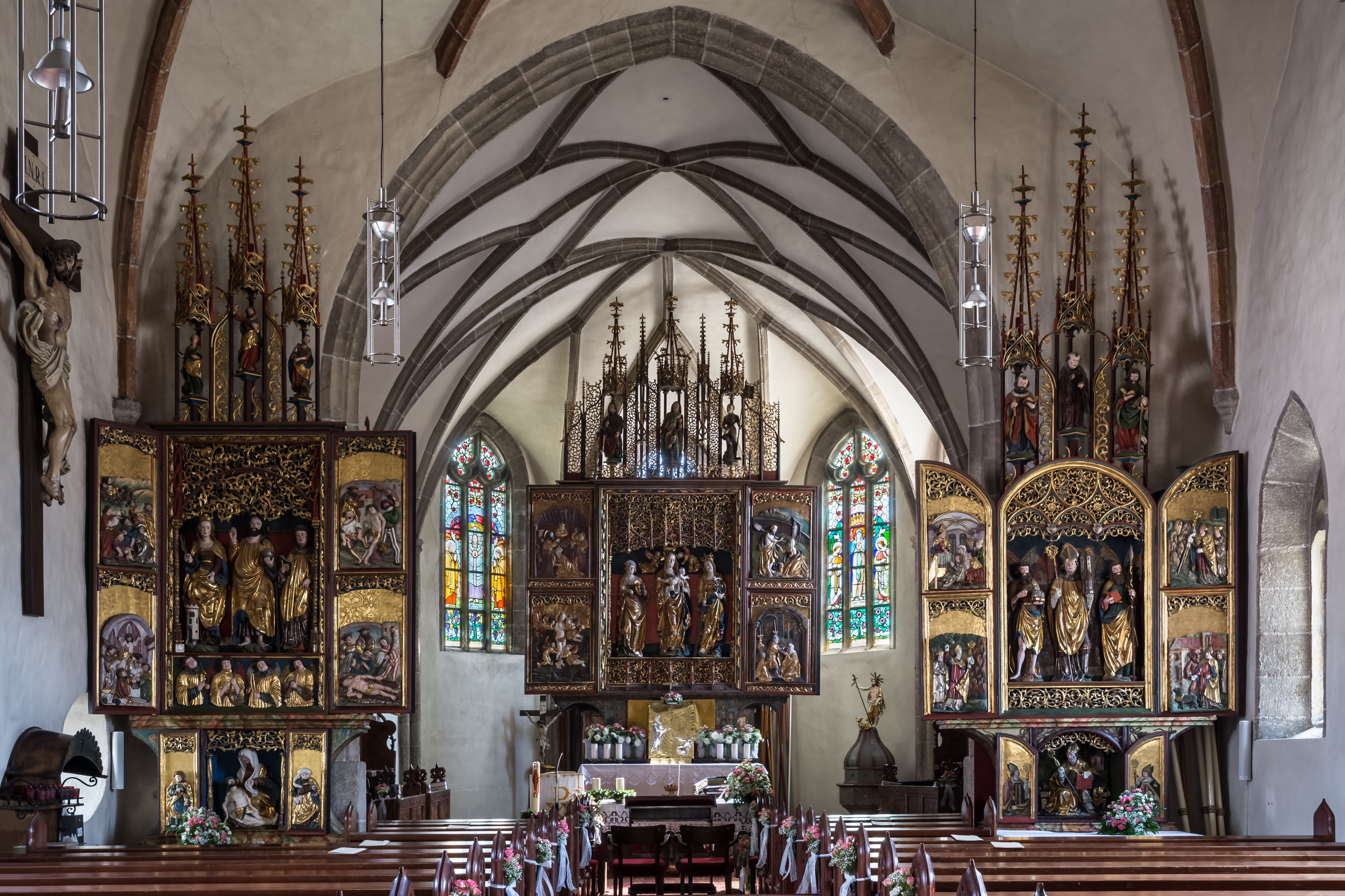 Interior of the parish church Waldburg, Upper Austria. Winged altars by Lienhard Krapfenbacher and his studio, 1517–1523.